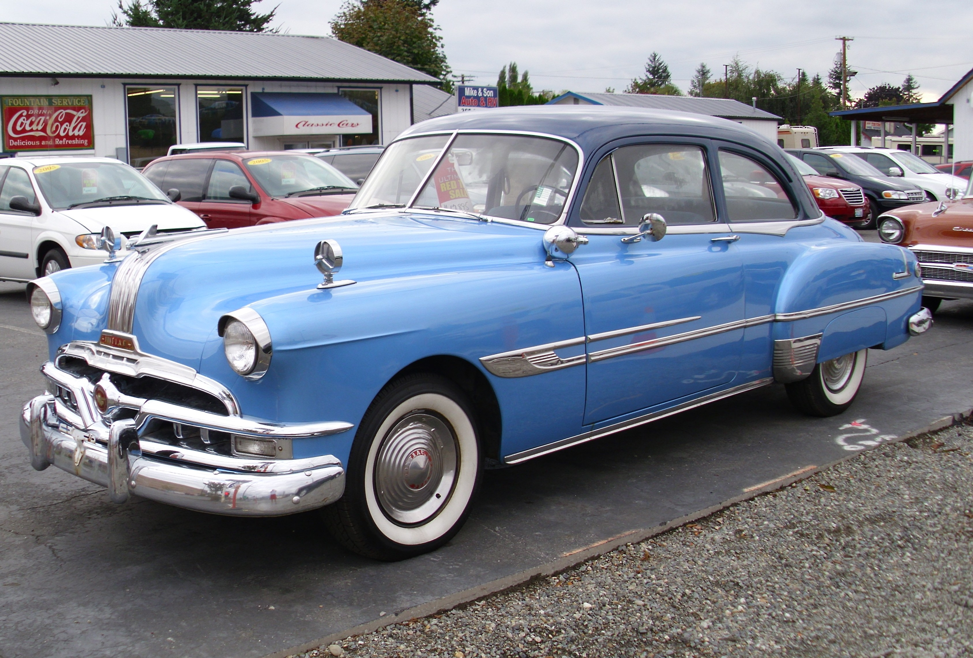 1952 Pontiac Chieftain 2-door sedan on a used car lot, asking $13,995. Nice looking car. I wonder if what is under the hood is original?